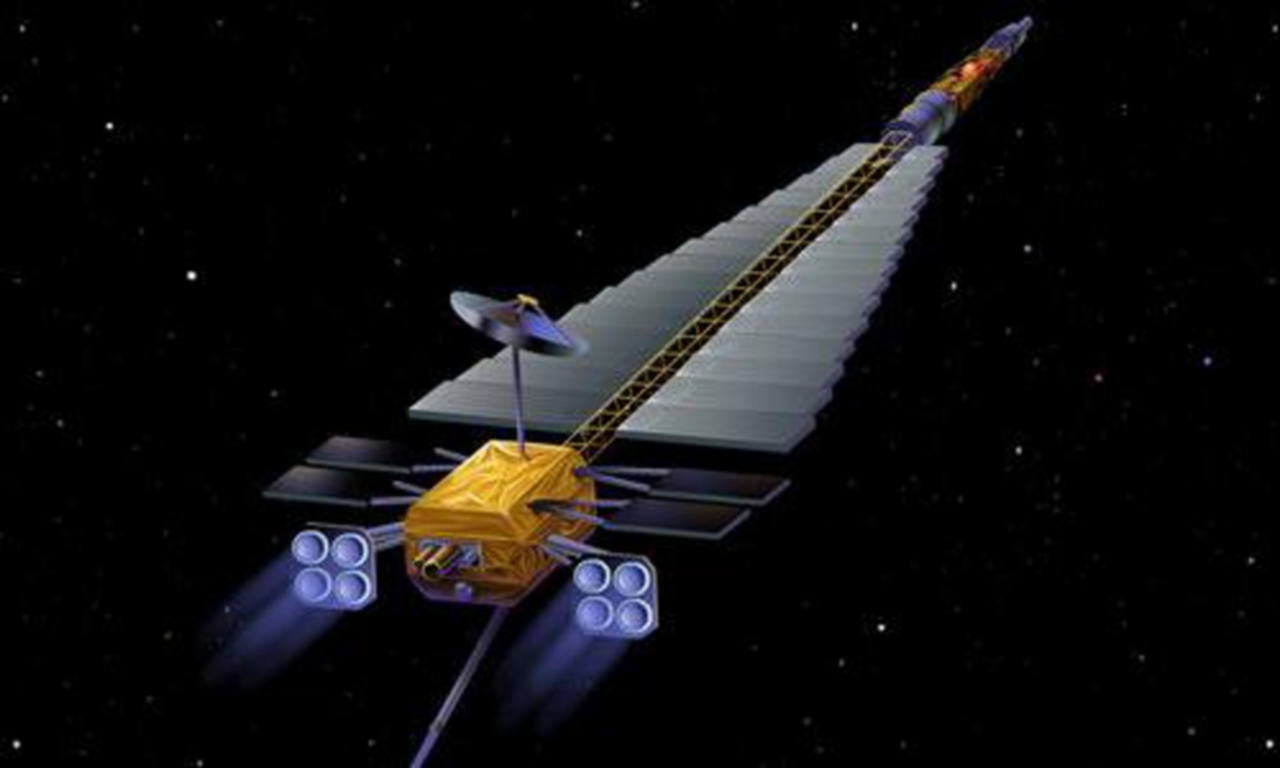 Ядерная электродвигательная установка